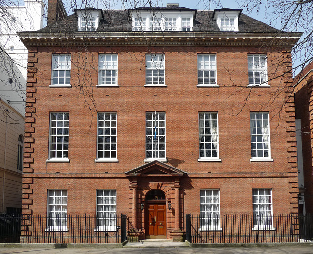 9 Halkin Street